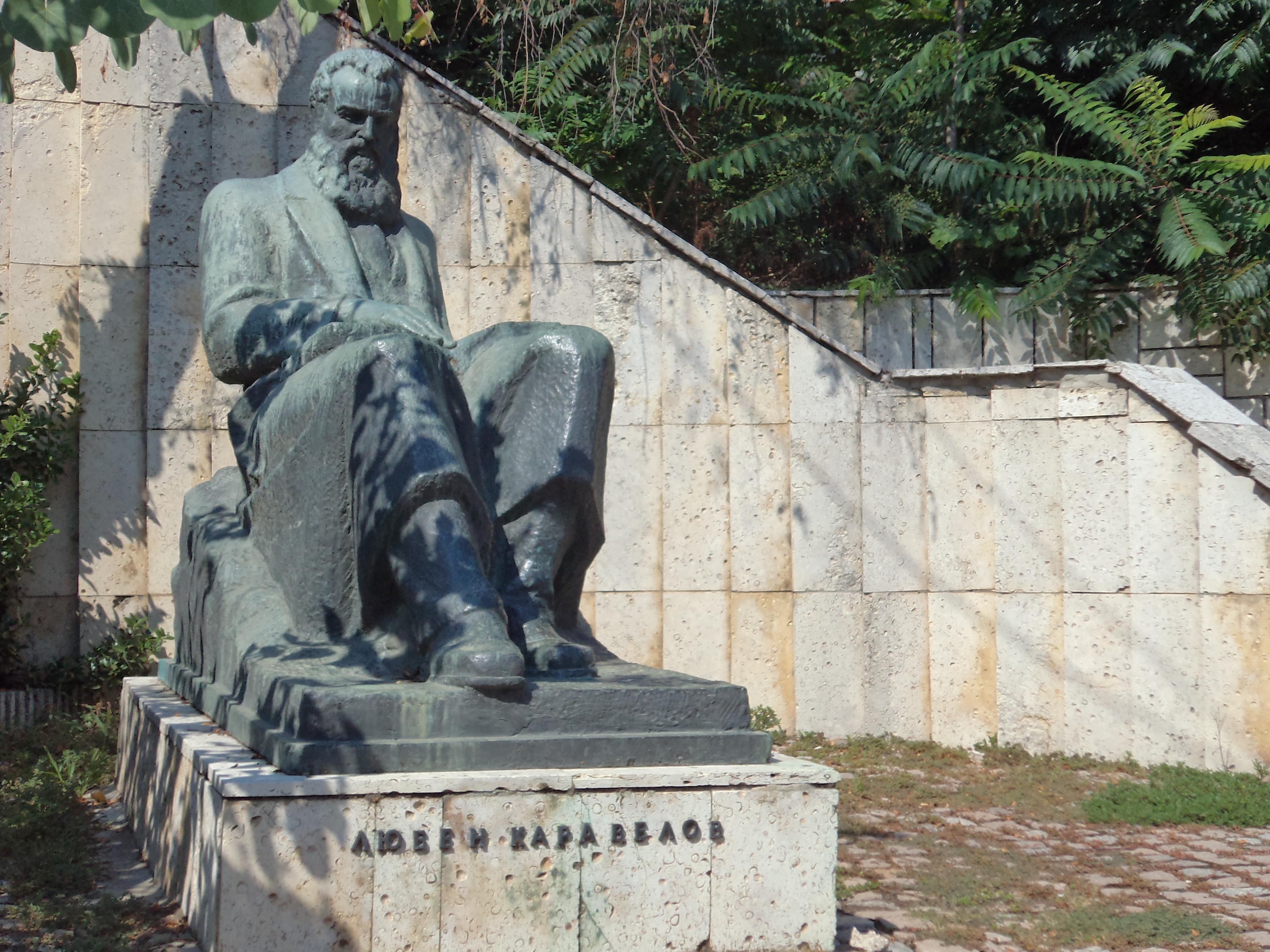 Monument of the Bulgarian writer Lyuben Karavelov in Balchik